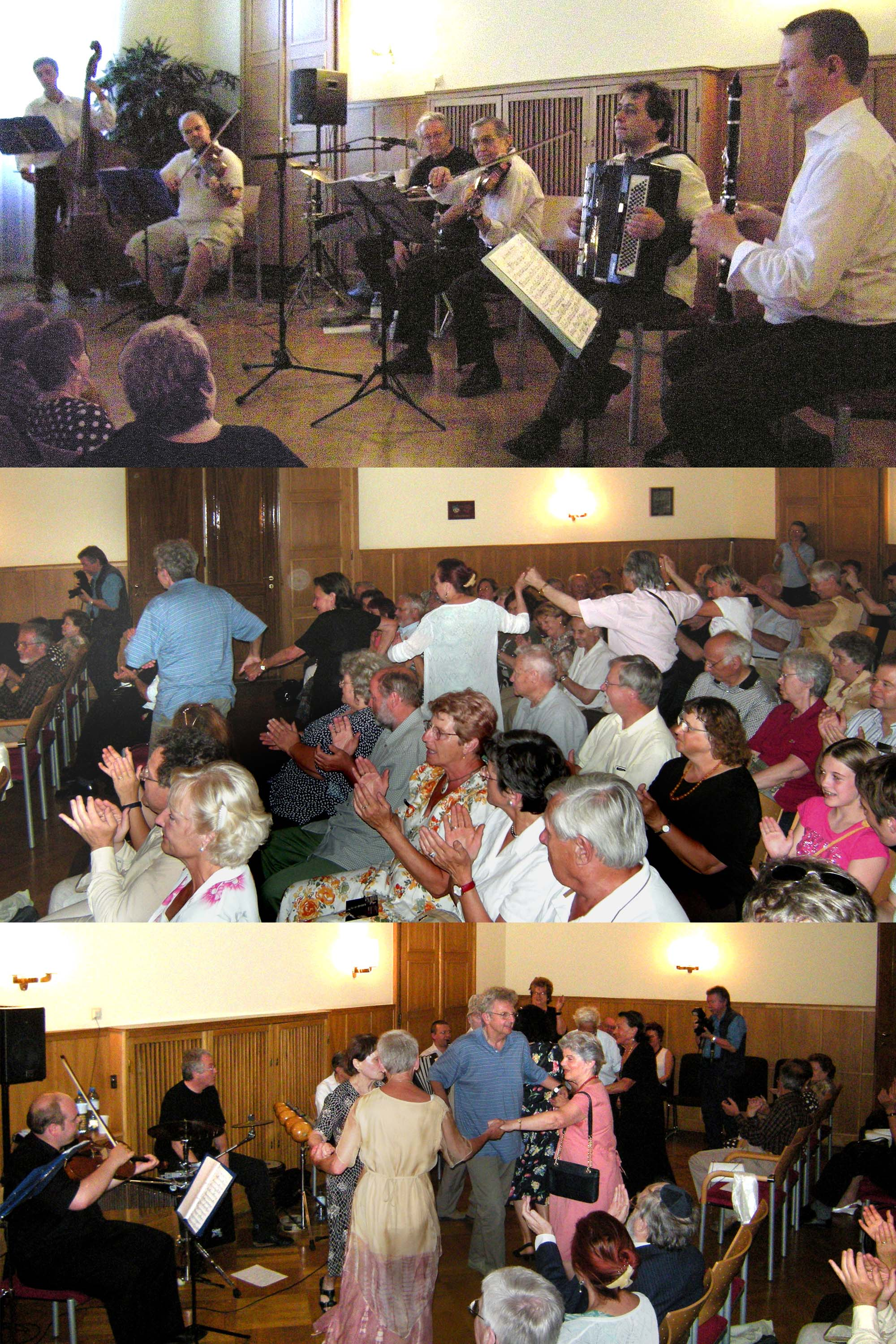 Ensemble Klesmer Wien performance "Lebedik un Freilech" (Jiddish -- possibly to be translated by Alife and cheery, or, maybe, Lifely and happy ). The event was no doubt alife, lifely, cheery and a happy one, anyways ;}) It happened in Vienna's 21st district. Note_1: Most frames were taken with available light, at down to ~1/10th sec at ISO 2000, open aperture. It will be up to the viewer to see them as "charming" or rather "poor". Note_2: Camera time (EXIF data) is set to UTC, which is local_time-2.